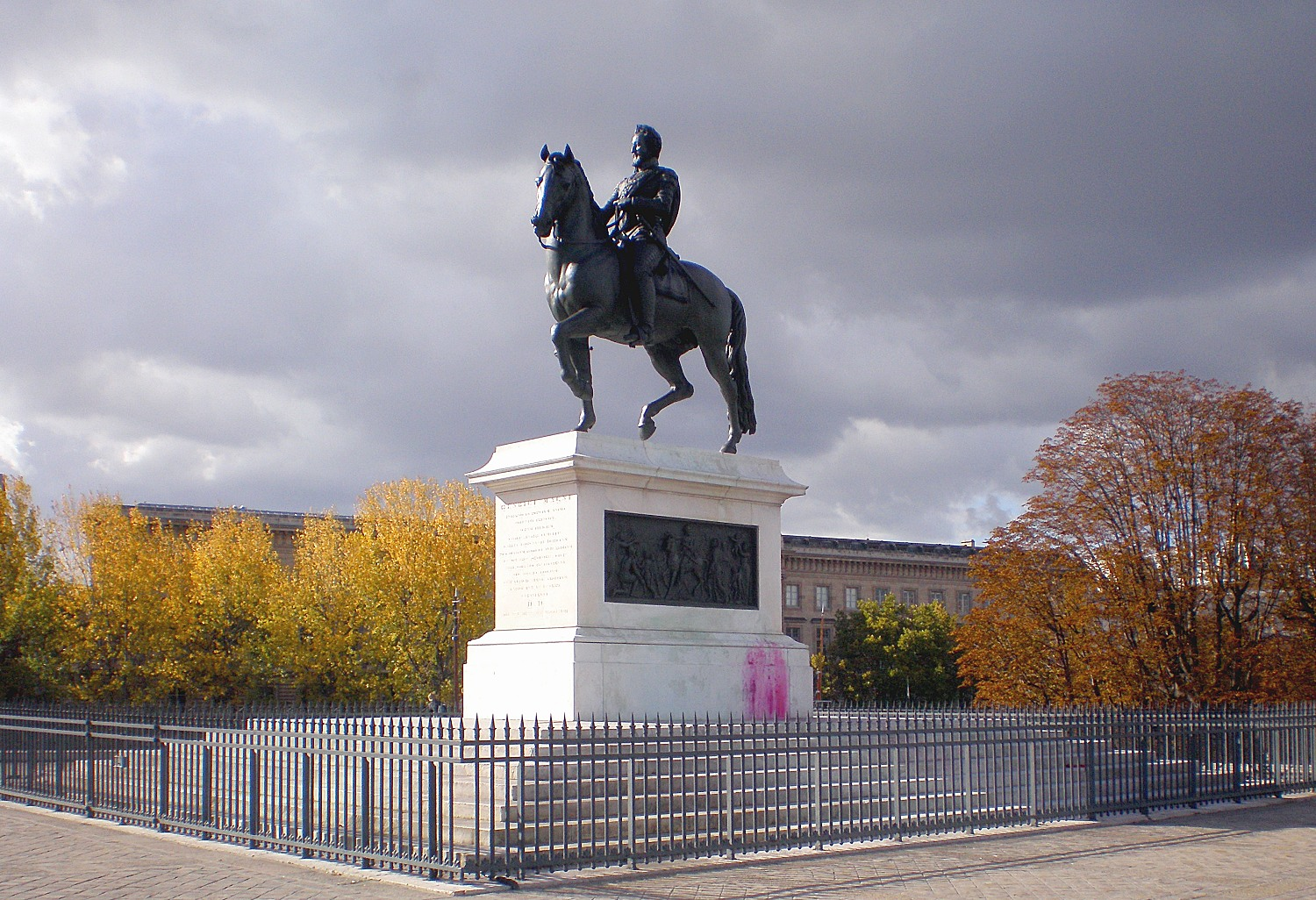 Statue of Henri IV in Paris